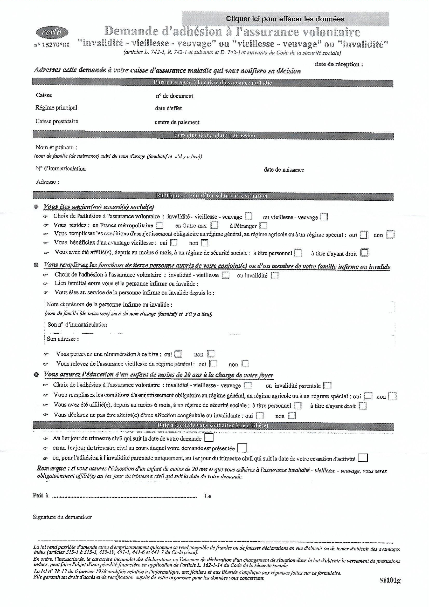 Formulaire Assurance volontaire vieillesse recto